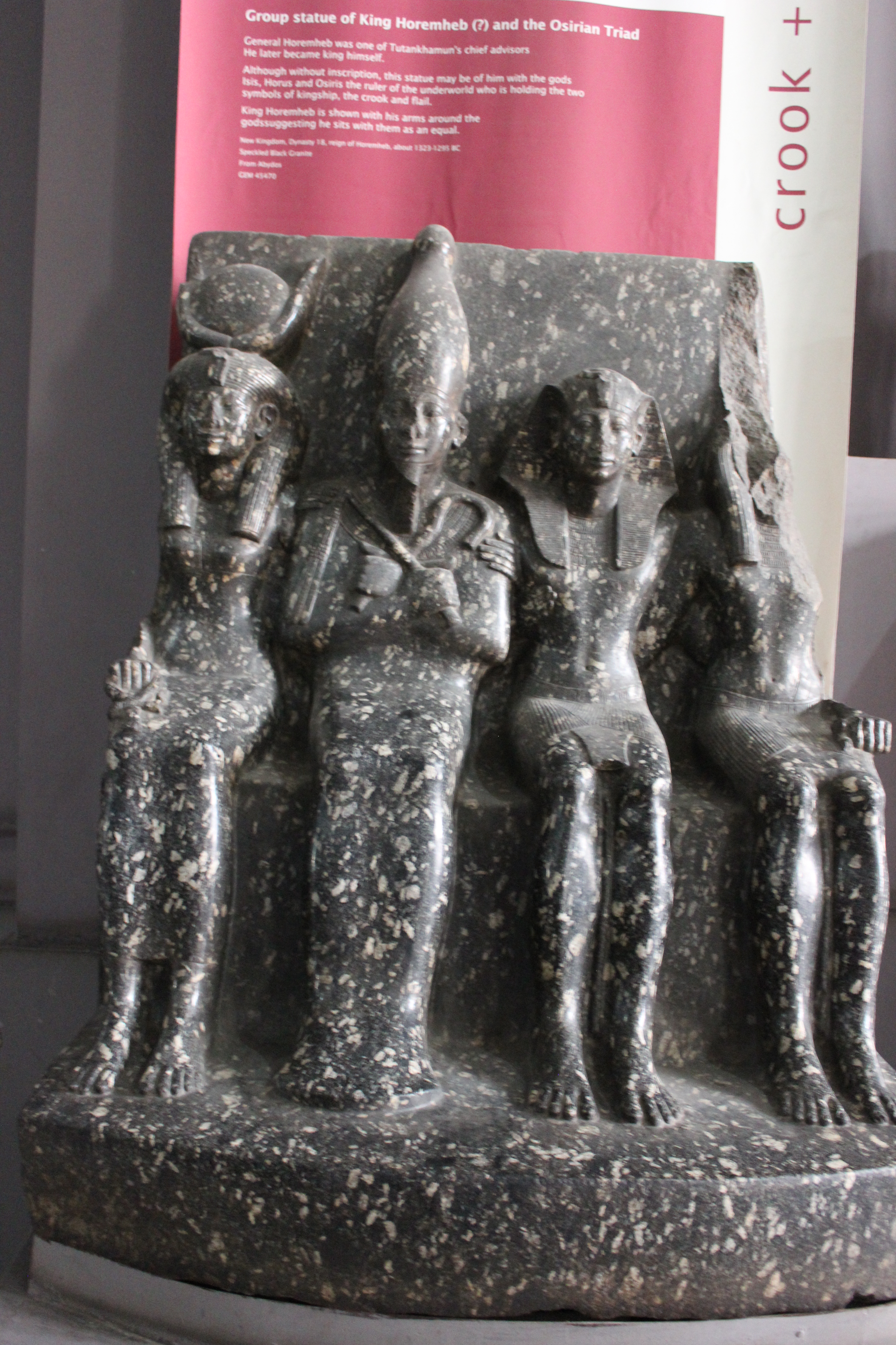 Group statue of King Horemheb and the Osirian Triad, Egyptian Museum in Cairo, Egypt.)